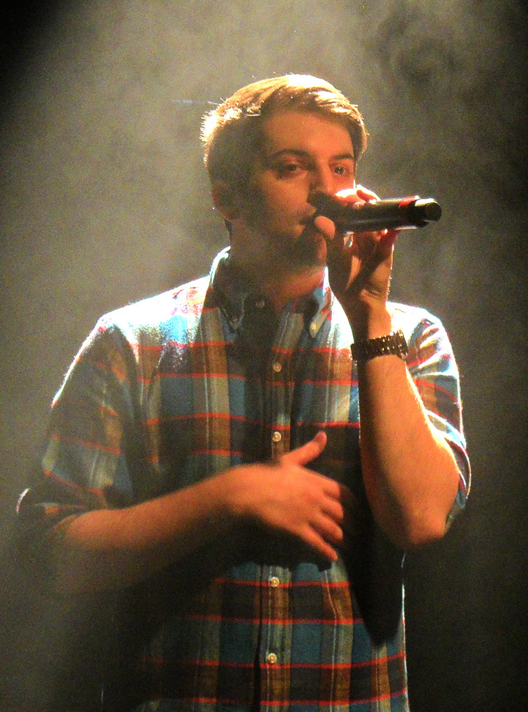 Mitch Grassi in concert with Pentatonix à La Flèche d'or à Paris